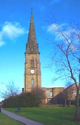 St Mary the Virgin parish church, Hunslet, Leeds, West Yorkshire